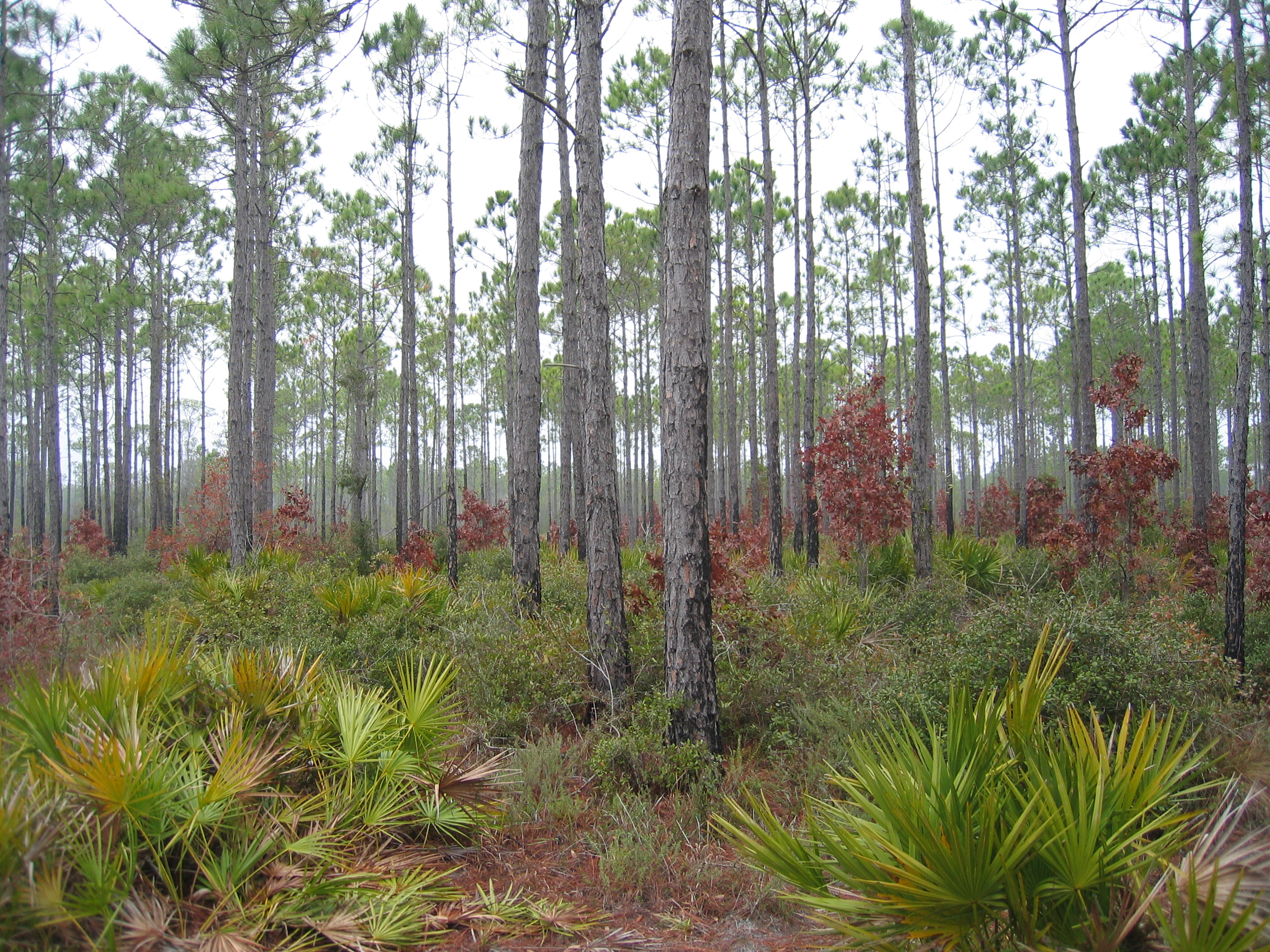 Thin trees in Apalachicola National Forest, Thin trees in Apalachicola National Forest Apalachicola National Forest